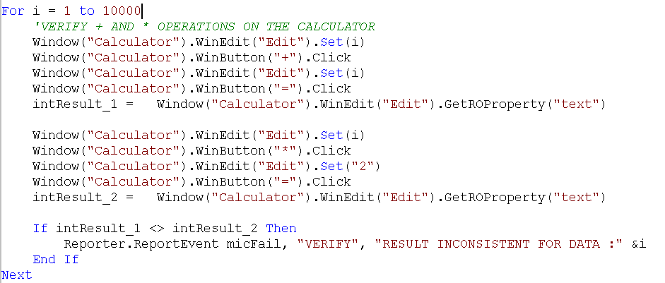 VBScript code in HP Quick Test Professional explaining importance of automation